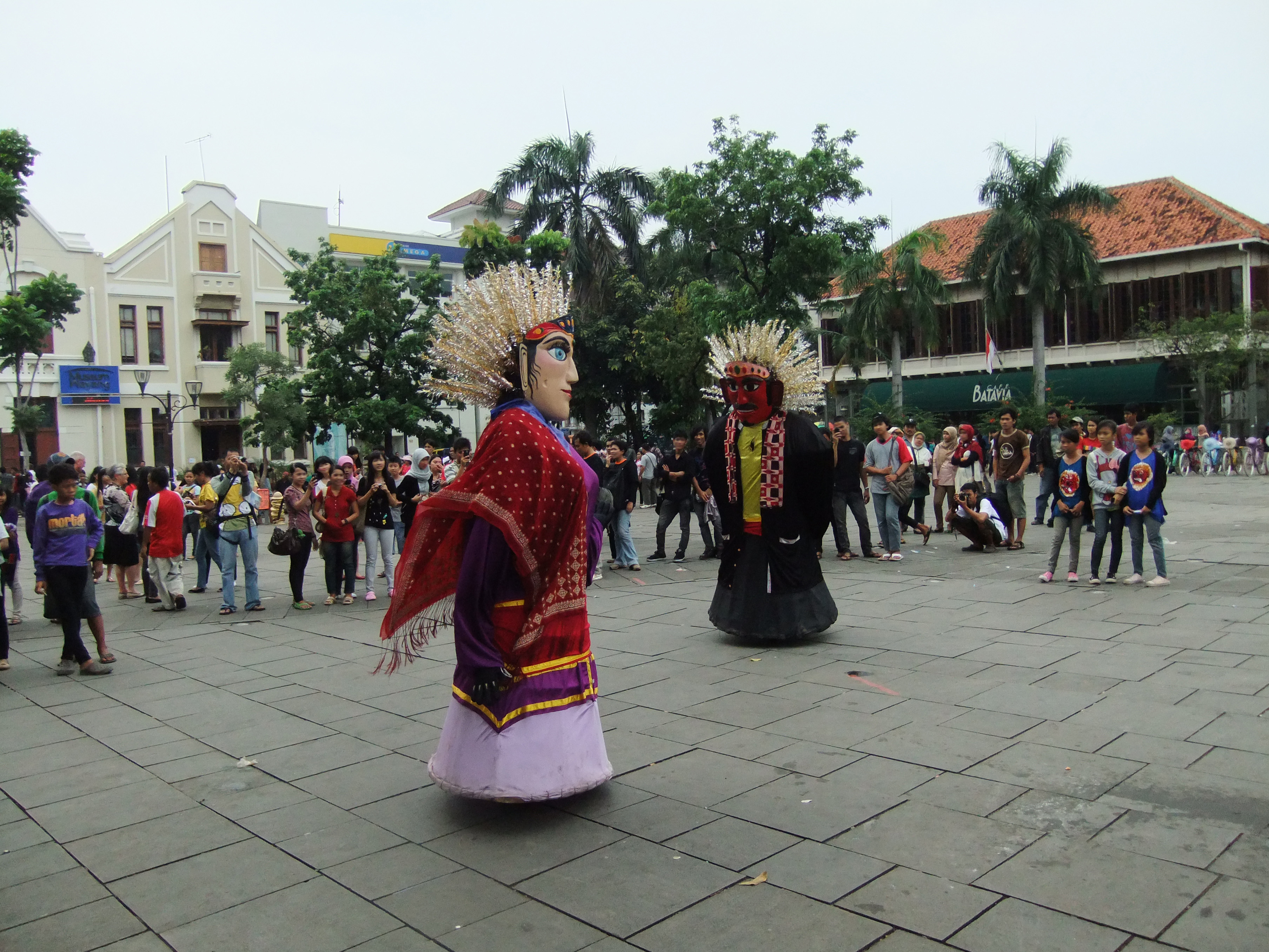 Dancing Ondel-ondel at Fatahillah Square, Jakarta, Indonesia